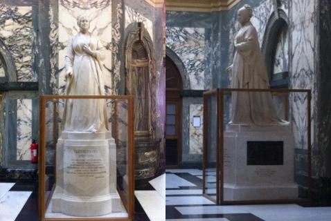 Two pictures of Elizabeth Fry's statue in the Old Bailey.